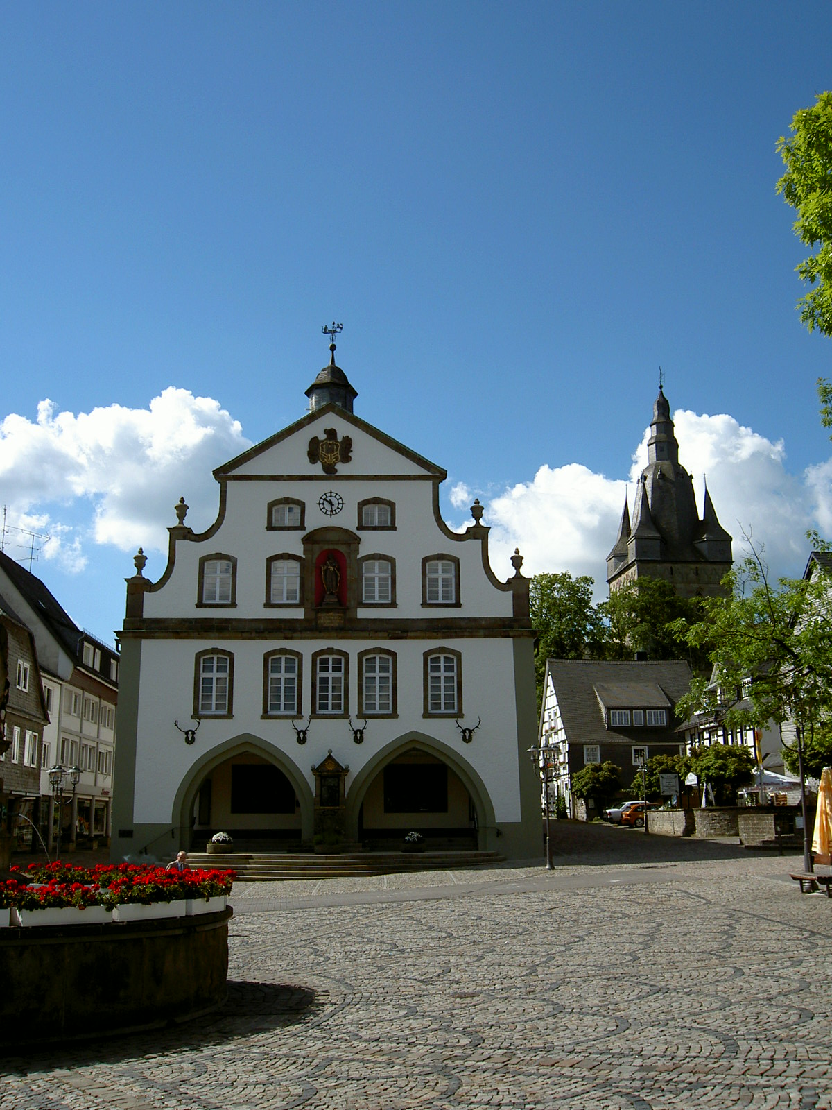 Rathaus der Stadt Brilon mit Propsteikirche (rechts hinten) This image shows a heritage building in Germany, located in the North Rhine-Westphalian city Brilon.